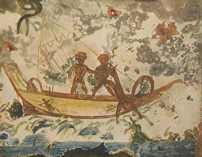 prophet Jonah being thrown into the Sea, catacombe di Priscilla (photo by Wilpert, Joseph. Die Malereien der Katakomben Roms, 1903)